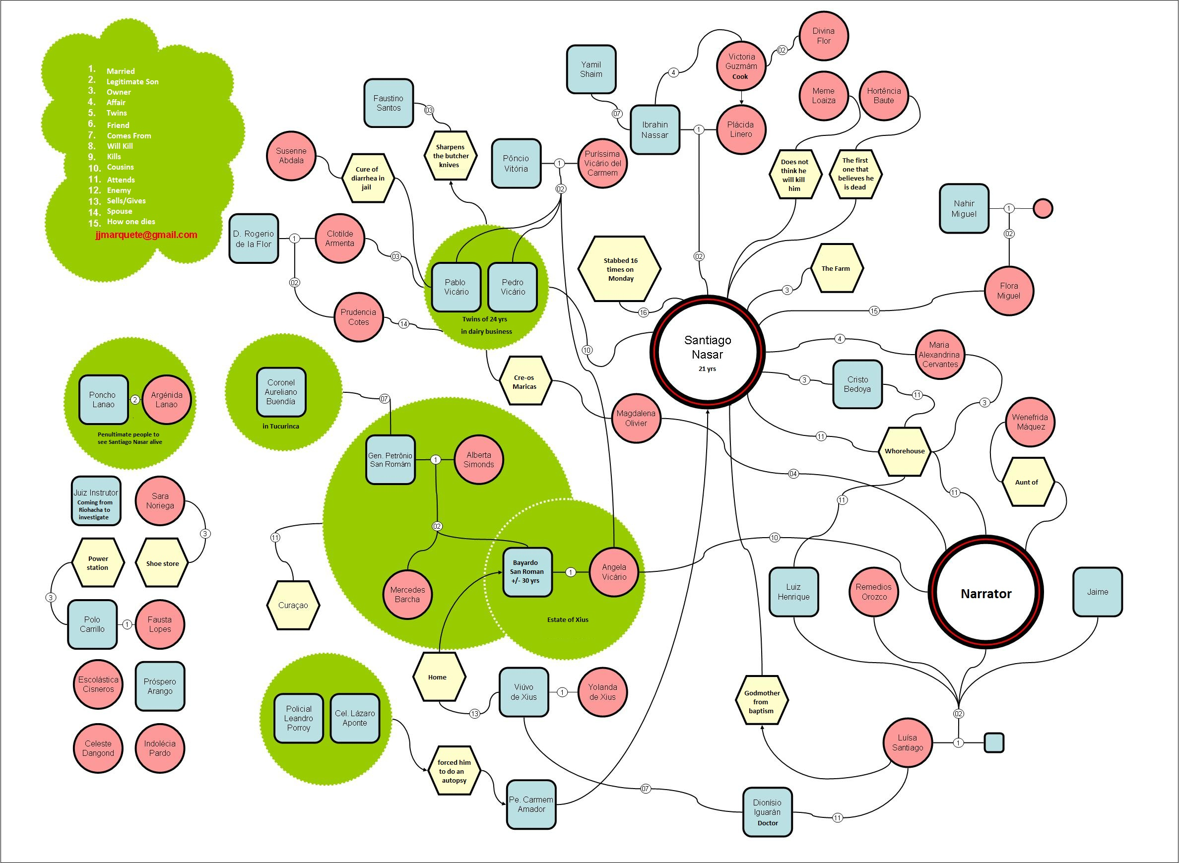 Character map for "A Chronicle of a Death Foretold" by Gabriel García Márquez